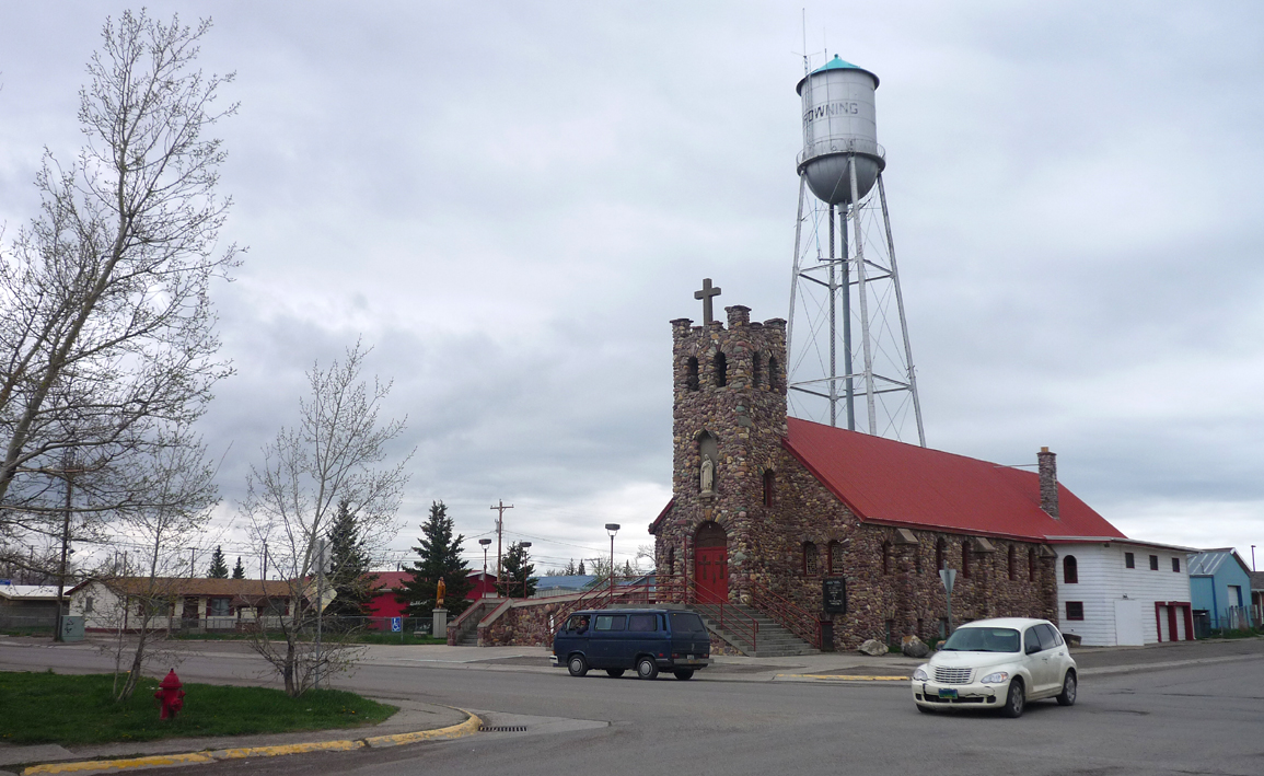 The Little Flower Catholic Church in Montana, Browning, Roman Catholic Church